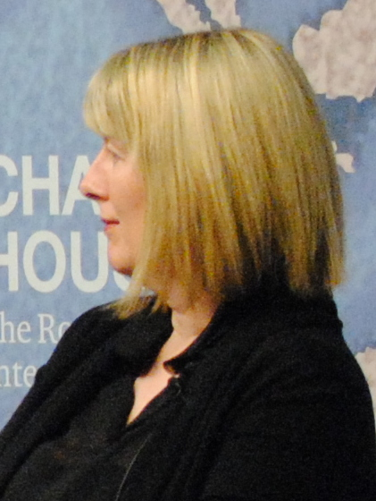 Professor Fionnuala Ní Aoláin, Robina Chair in Law, Public Policy, and Society, University of Minnesota; Professor of Law, University of Ulster